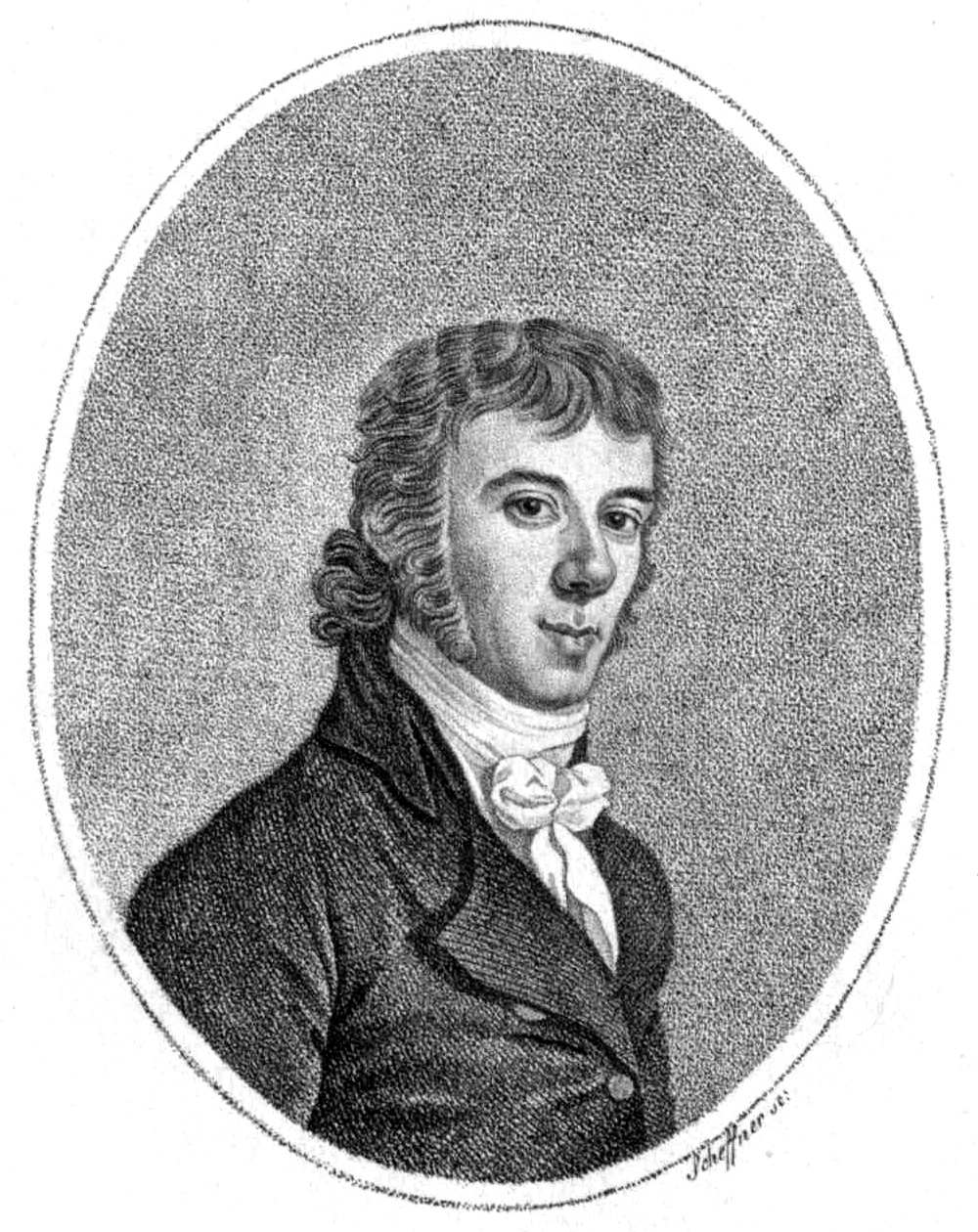 Depicted person: Joseph Woelfl